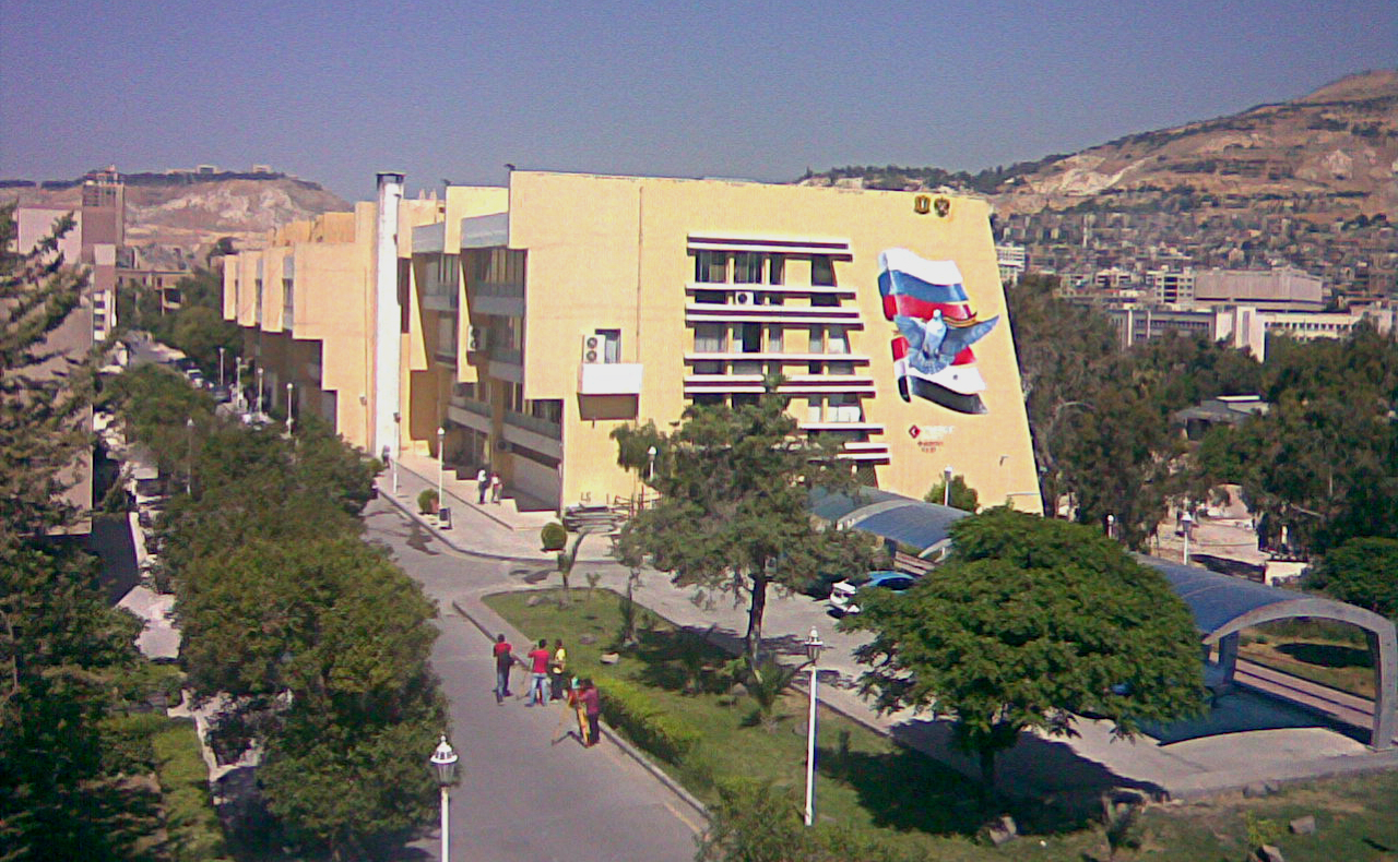 Faculty of Architecture in Damascus university